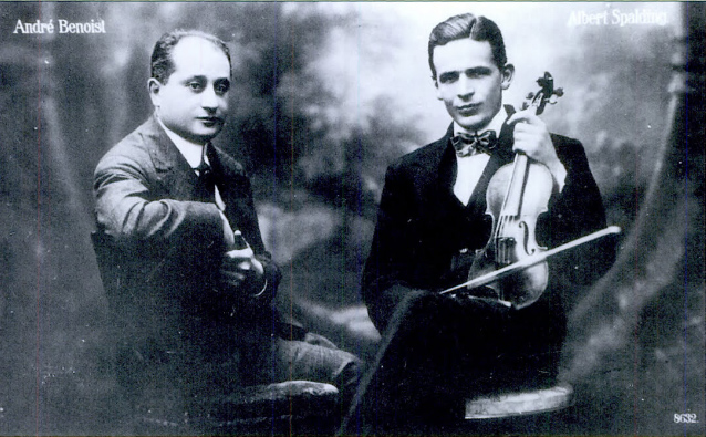 The pianist André Benoist (1879-1953) and violinist Albert Spalding (1880-1953).